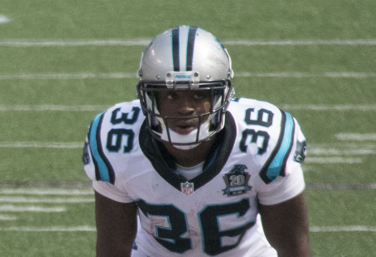 Carolina Panthers running back, Darrin Reaves, in a game against at Baltimore Ravens on September 28, 2014.